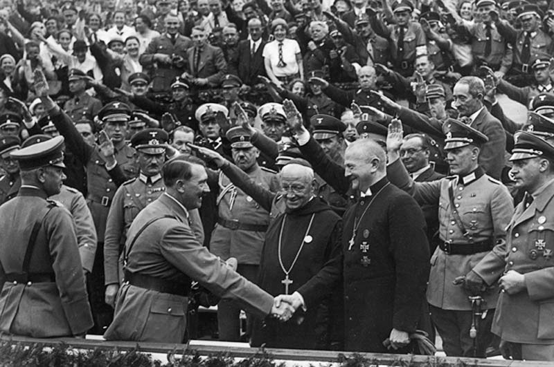 Adolf Hitler shaking hands with Catholic dignitaries in Germany in the 1930s.